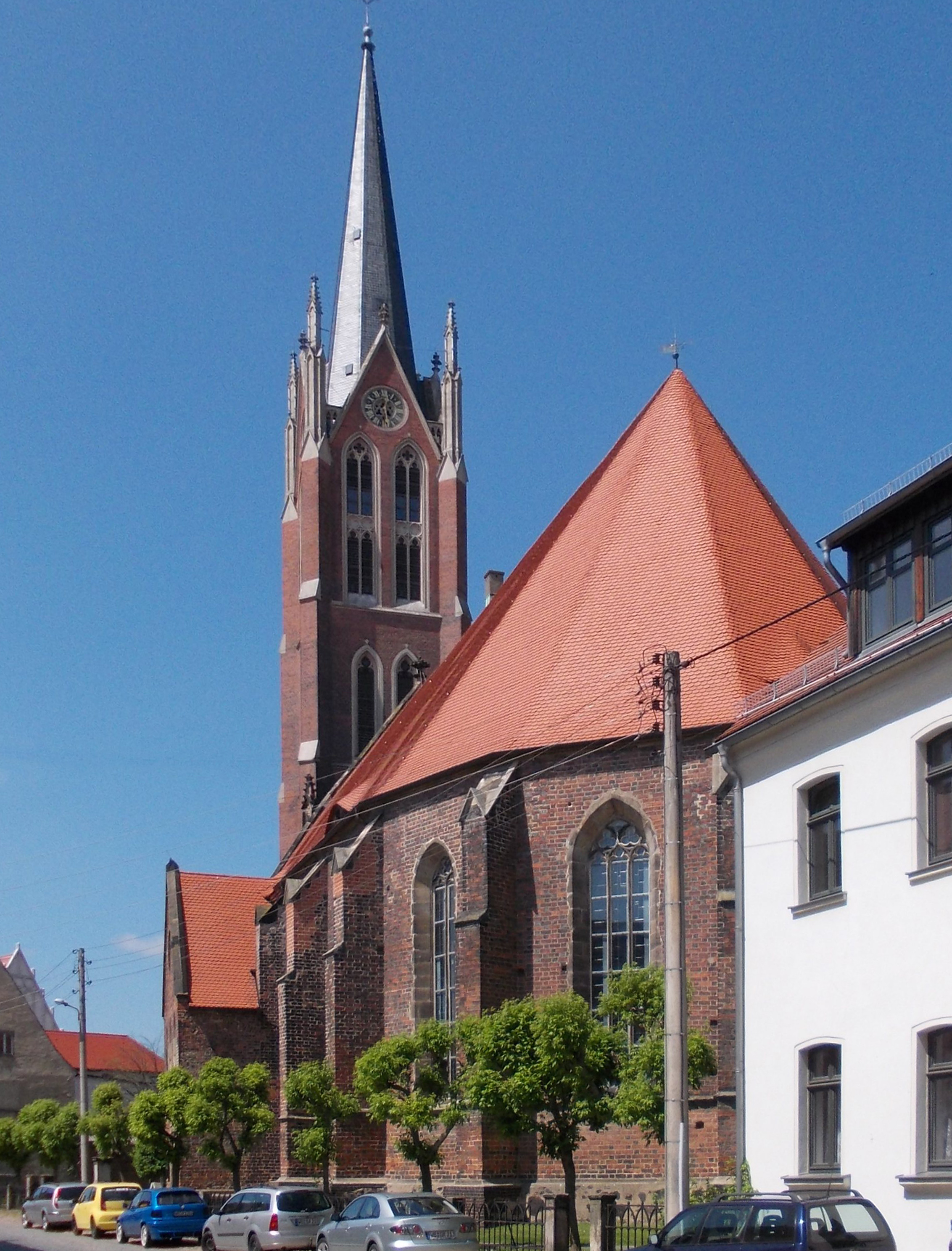 St. Mary's Church in Kemberg (Wittenberg district, Saxony-Anhalt)